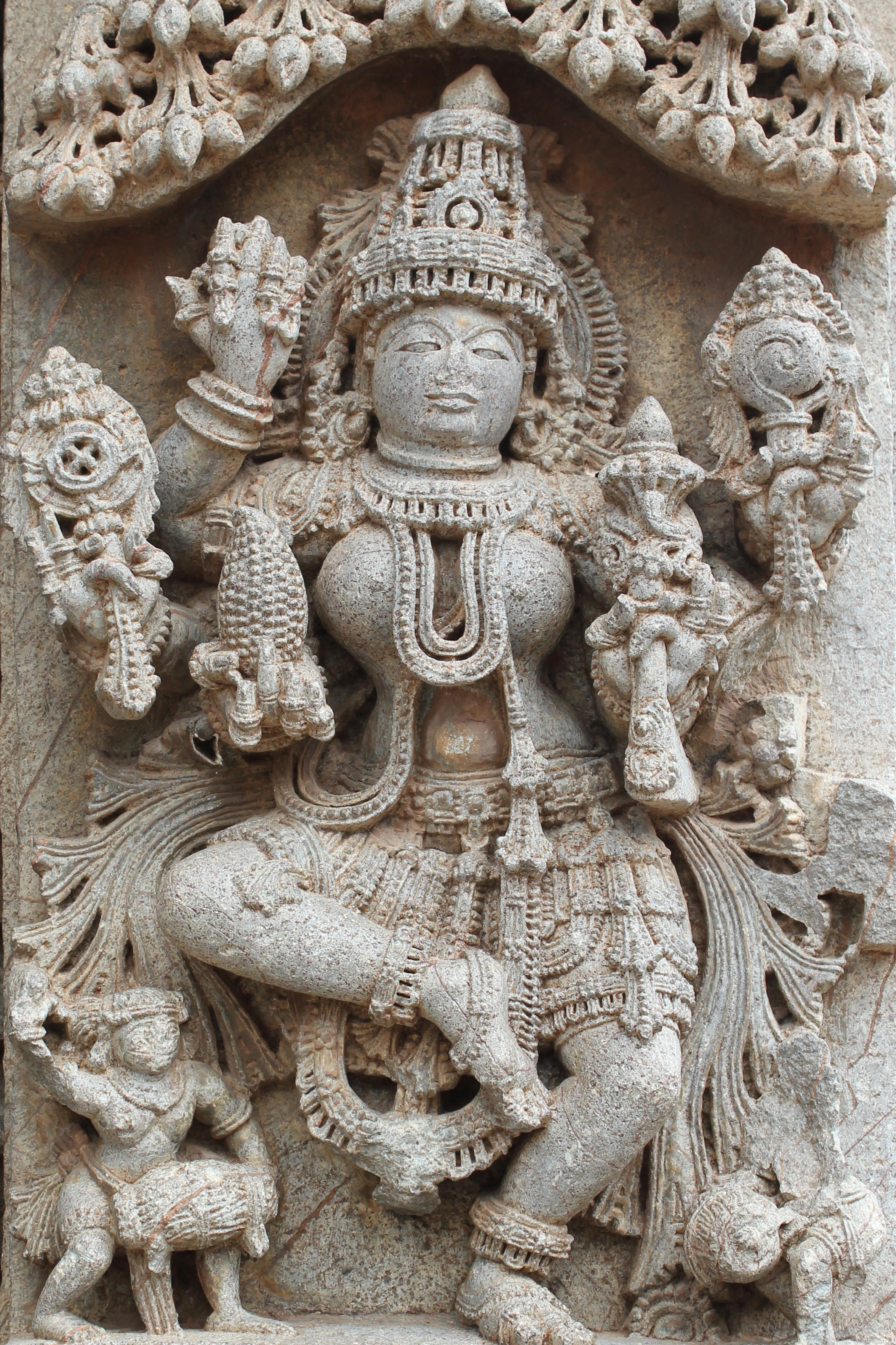 Chennakesava temple at Somanathapura, Karnataka, India. Wonderful example of Hoysala architecture of the 13th century. This and other idols were desecrated by marauding invaders. Hindu temple, India Sep 2013